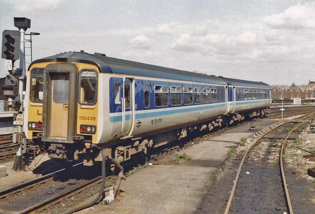 156 438 Metro-Cammell (Birmingham) Class 156 "Super Sprinter" Standard Mk.III outer-suburban 2-car dmu No.156 438 in BR Regional Railways livery with Sprinter logos departing Bristol (Temple Meads) on a Bristol (Temple Meads) - Cardiff service, 05/89. Scanned photograph taken with a Miranda MS-1N.